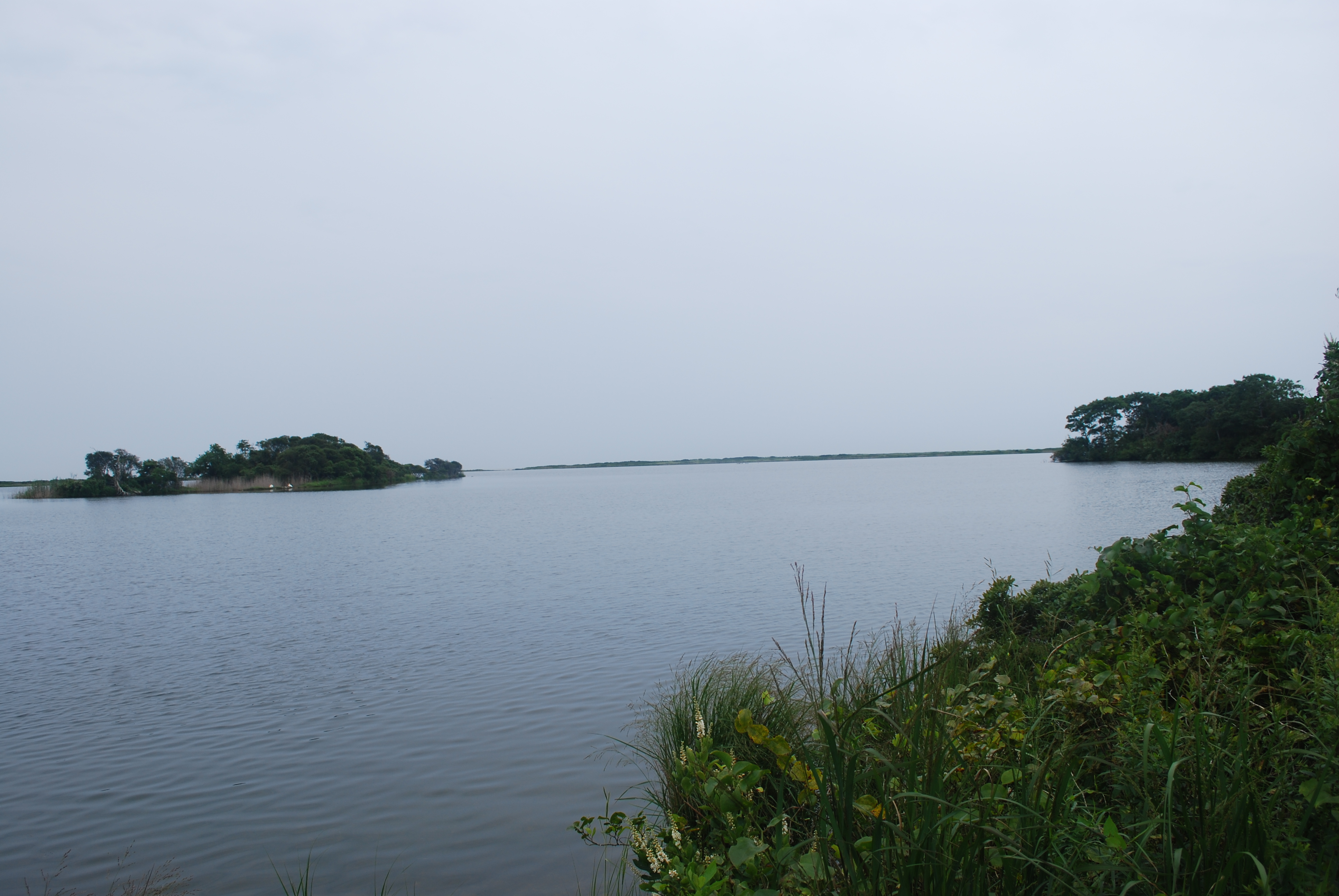 Trustom Pond in South Kingston, Rhode Island